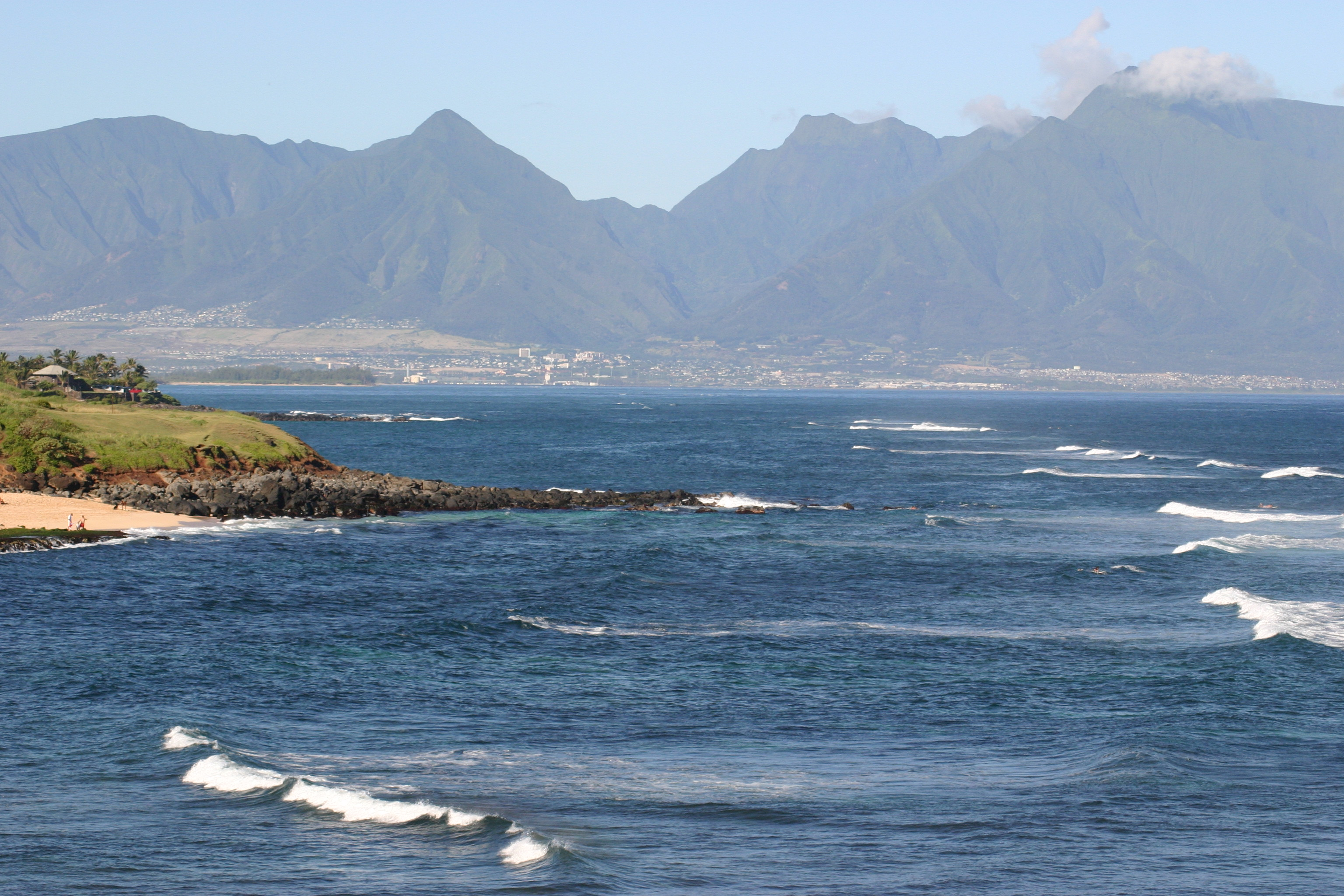 The notch in the center is the entrance to Iao Valley, the city at the base of the mountain is Wailuku, Hawaii (and suburbs).